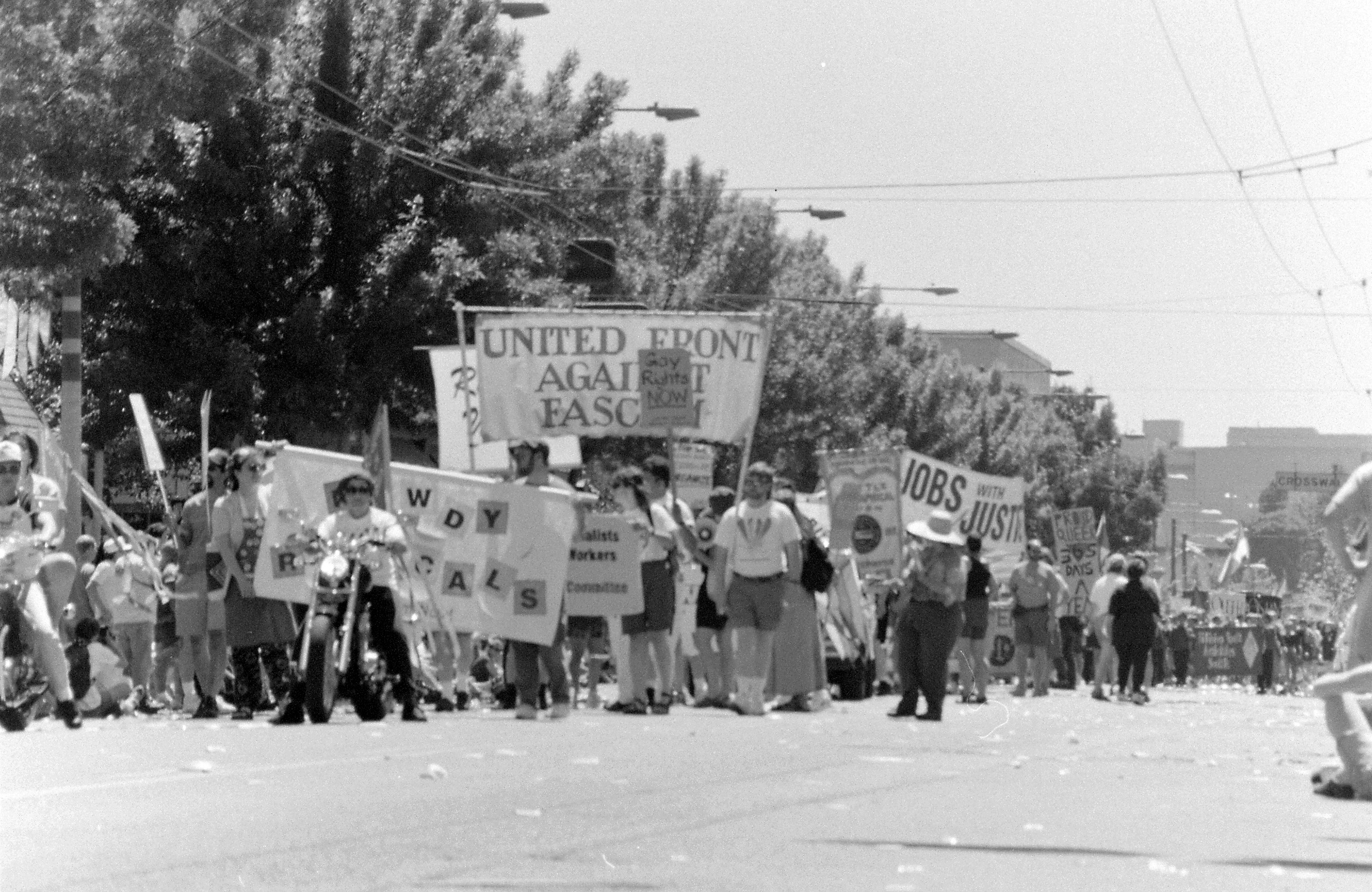 United Front Against Fascism, Freedom Socialist Party, and Radical Women, annual Seattle LGBT Pride parade, Capitol Hill, Seattle, Washington, 1995. This would have been before this parade was relocated to its present downtown route in 2006.